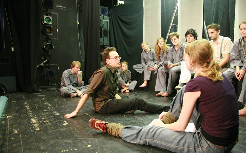 Photo of the theatrical ensemble 'Lunds nya Studentteater' surrounding the director during rehersals for the autumn 2006 play of 'Dante's Divina Commedia'.